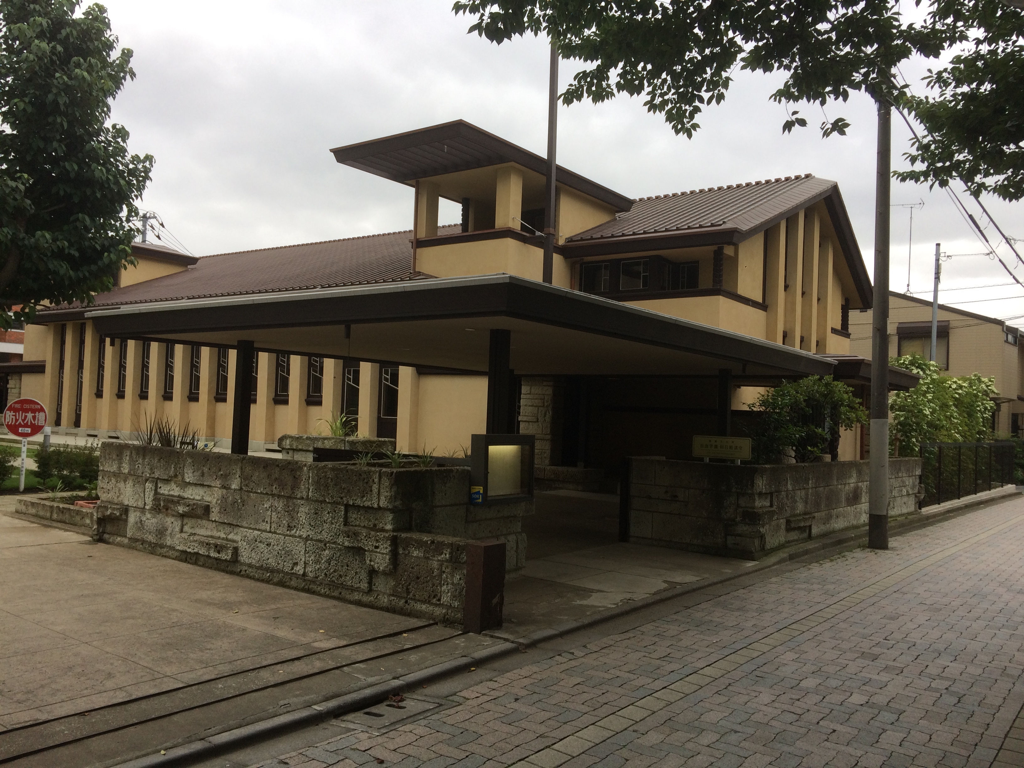 Auditorium, Jiyu Gakuen Myonichikan, Ikebukuro, Tokyo. Photographed 2018-06-16